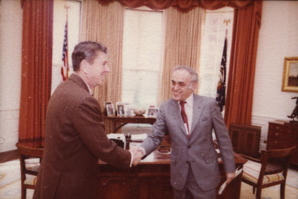 President Ronald Reagan, Robert Novak, and Rowland Evans (3-16) Interview with Evans and Novak